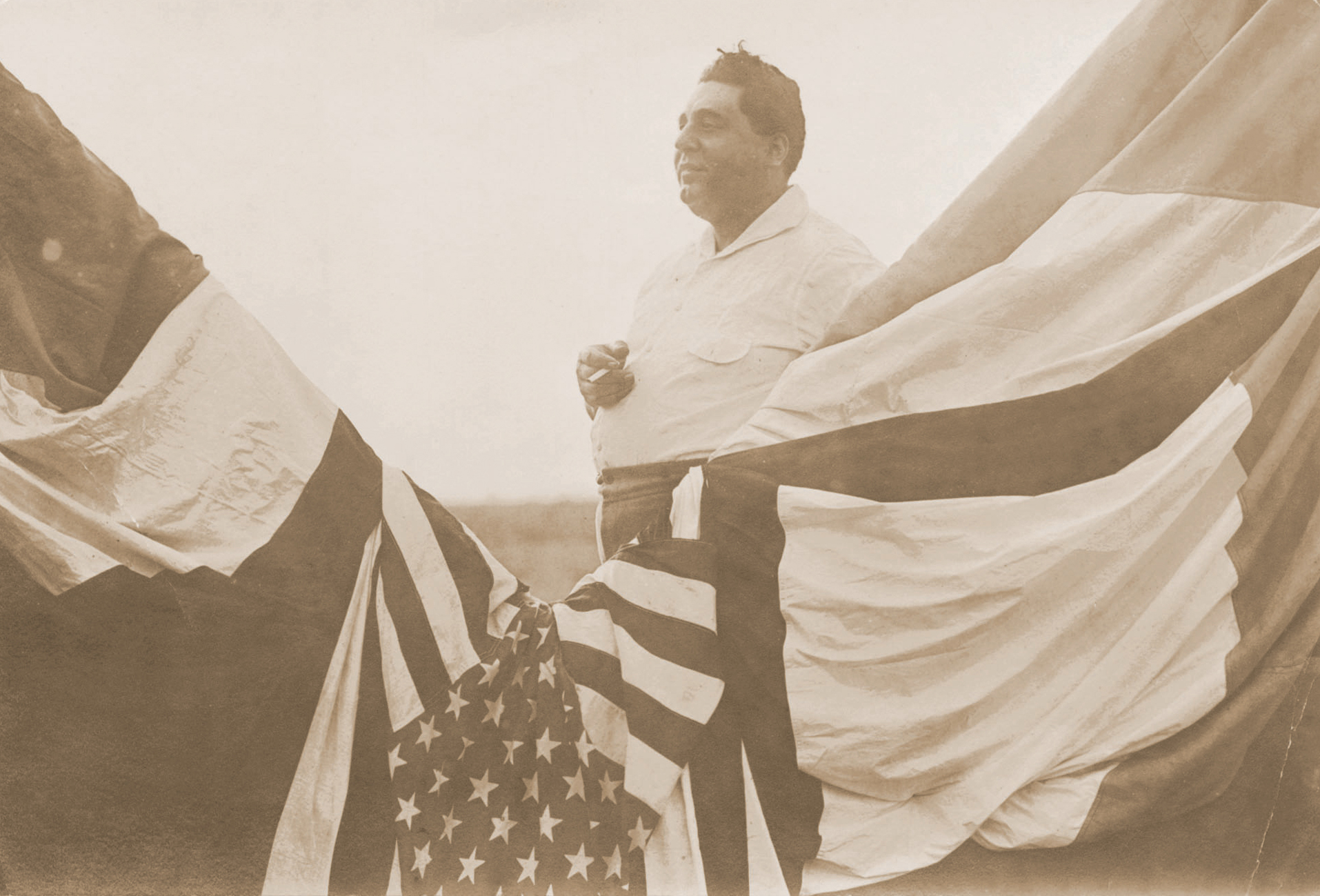 Léonce Perret's photo.